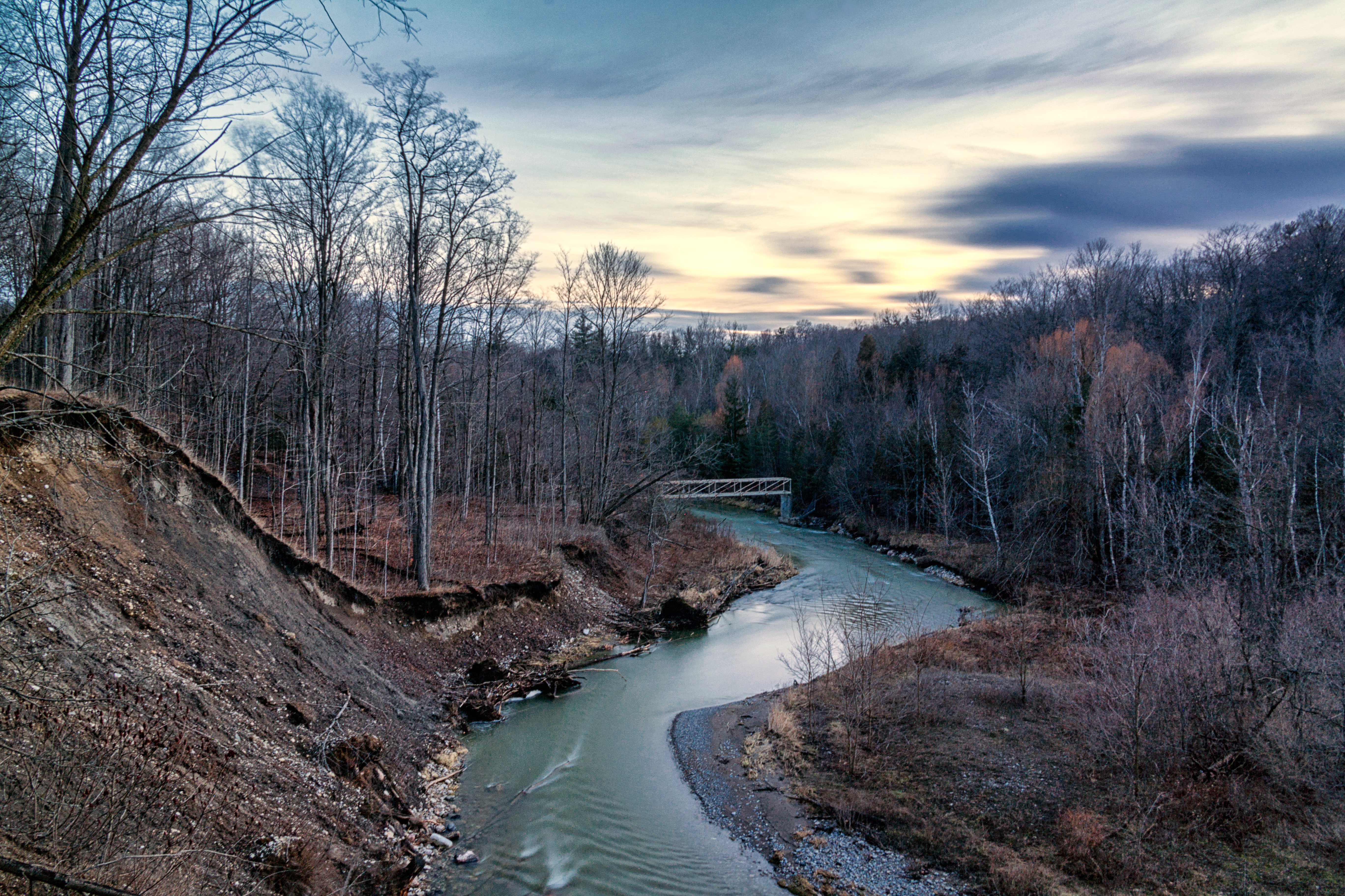 Rouge river creek view on top of one of the parks bluffs.